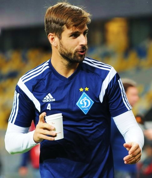 Miguel Veloso